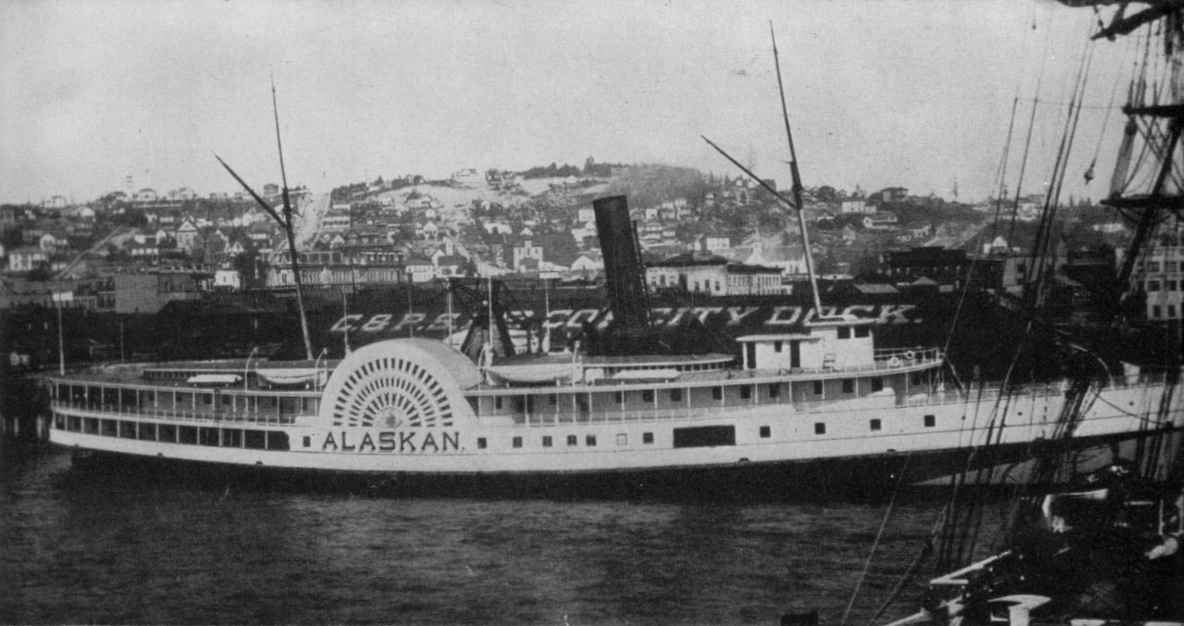 Large sidewheeler Alaskan moored at Seattle in 1888 or the first part of 1889.